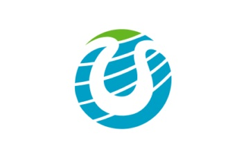 Flag of Hitachiomiya Ibaraki